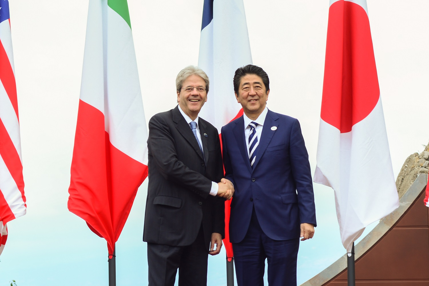 Handshake of Paolo Gentiloni and Shinzō Abe during the 43rd G7 summit